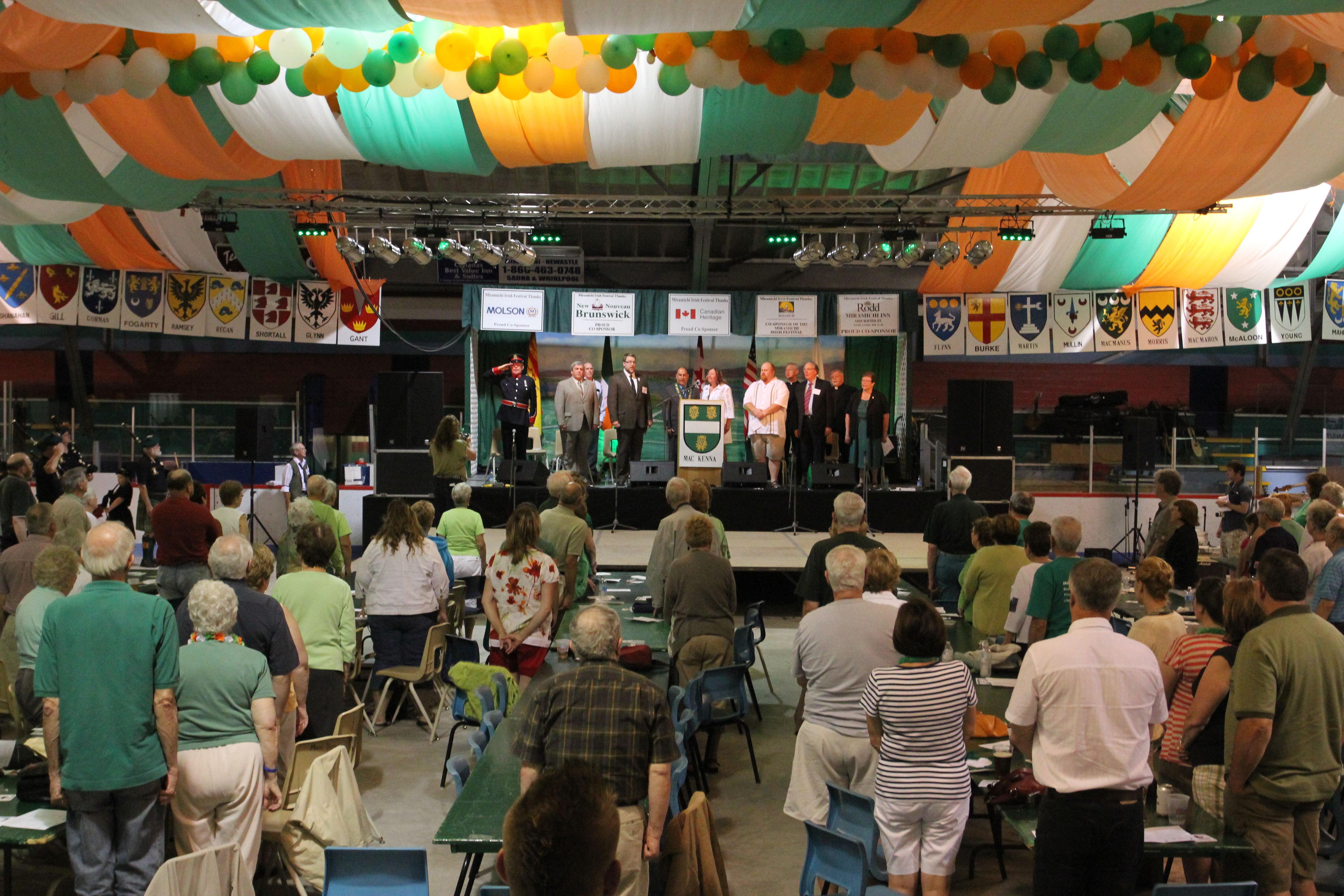 Canada’s Irish Festival on the Miramichi, New Brunswick, Canada